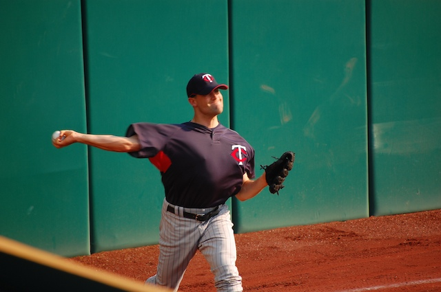 Pat Neshek warming up.